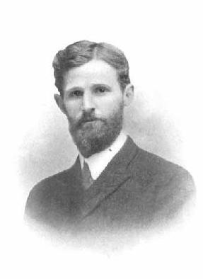 Leonard Worcester Williams